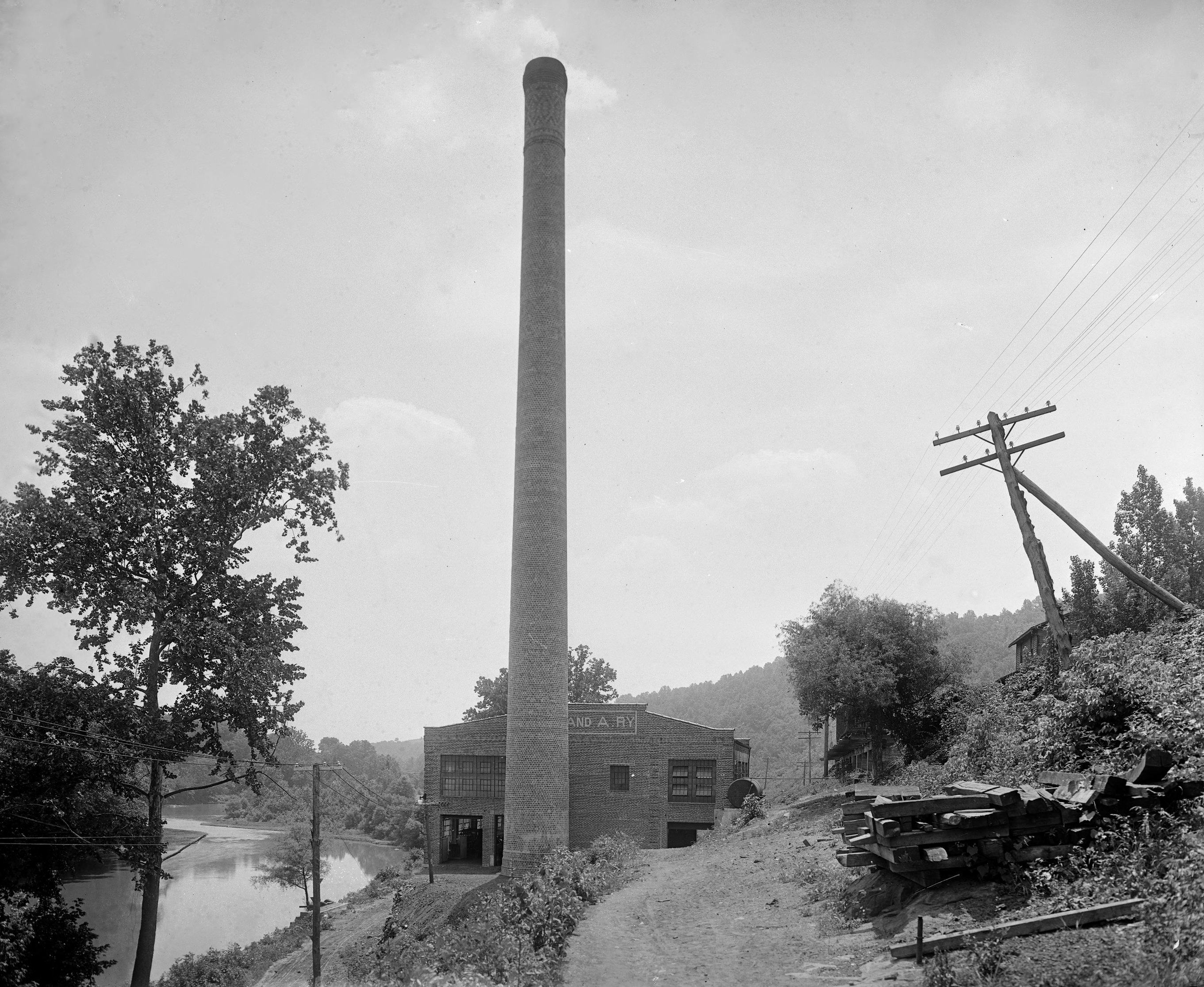 Power Plant used by the Charlottesville and Albemarle Railway of Charlottesville, Virginia to generate electricity for its streetcars and Charlottesville citizens. Retouched and cropped slightly to remove blemishes.